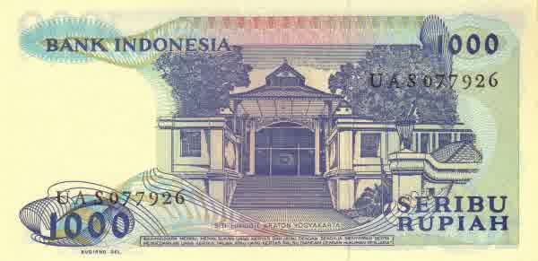 Indonesian currency issued 1976-2000.